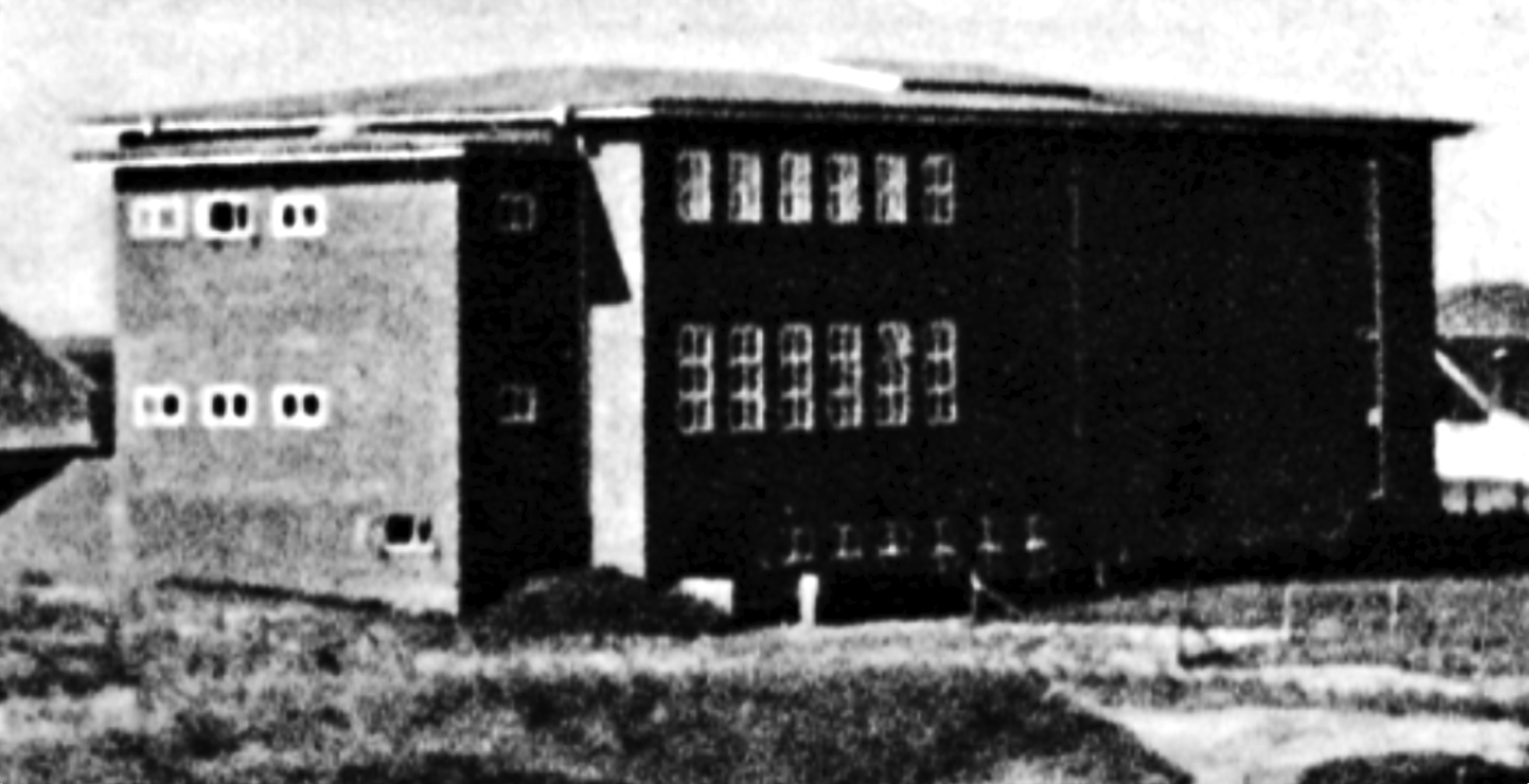 In 1929 Bruno Ahrends (1878–1948) projected the Hallenbau of 'Schule am Meer' on the German island of Juist which was erected in 1930/31. The ground-breaking ceremony was held on 3 May 1930 which also marked the 50th birthday of the school's founder Martin Luserke (1880–1968). The official house opening was at Pentecost/Whitsun weekend 1931. At that time the Hallenbau was the largest concrete building in East Frisia, Germany. It included a large theater hall with stage and gallery which could also be used for indoor sports classes. At the beginning of the 1950s the building was modificated for a children's home named Inselburg (Island's castle). So today it is not in its original state. The former theater hall became a second floor while the gallery was aborted. The building became more windows but the long slim vertical strip of ribbon windows was closed with masonry. Today the building is part of the youth hostel of Juist.